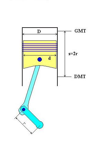 Cylinder mechanism with main dimensions